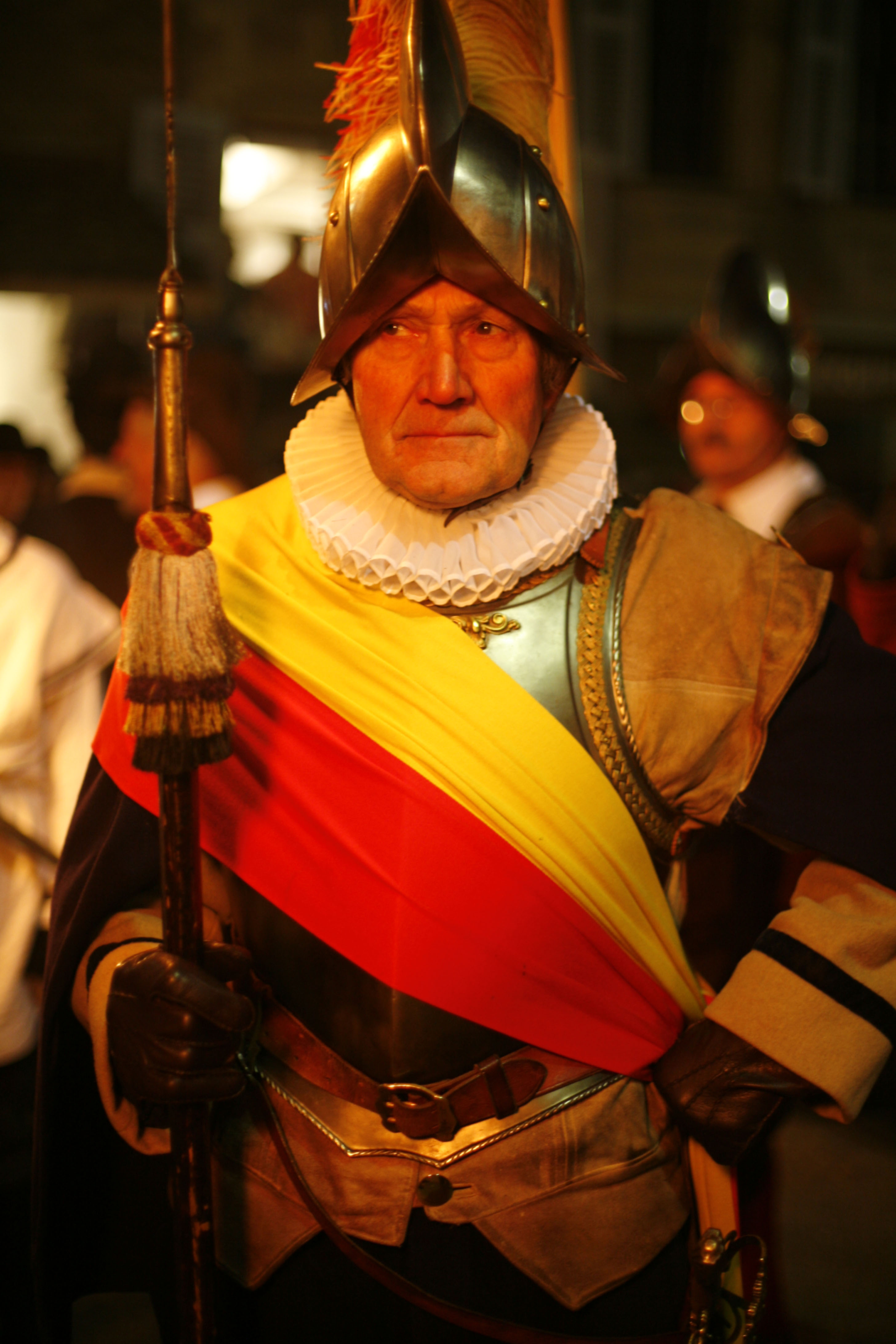 Commemoration of the Escalade at Geneva, in the Vieille-ville (Old Town), 1602 Company.